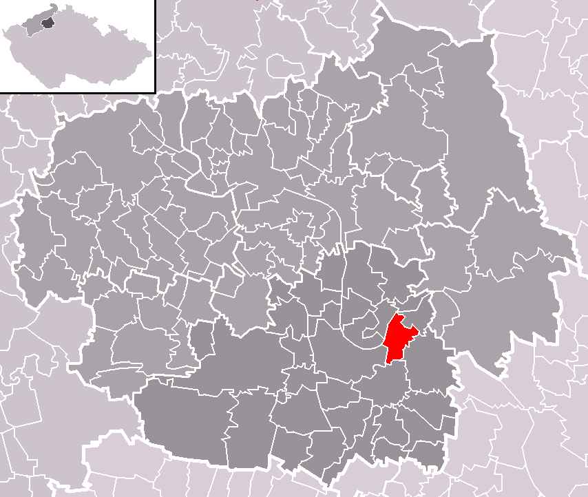 Location of Dobříň municipality within Litoměřice District and administrative area of Roudnice nad Labem as a Municipality with Extended Competence.